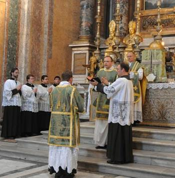 Ite missa est - High tridentine mass